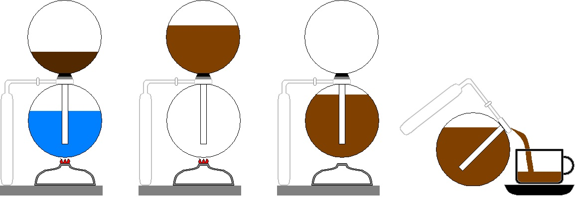 Vaccum Coffee prepared with Siphon method